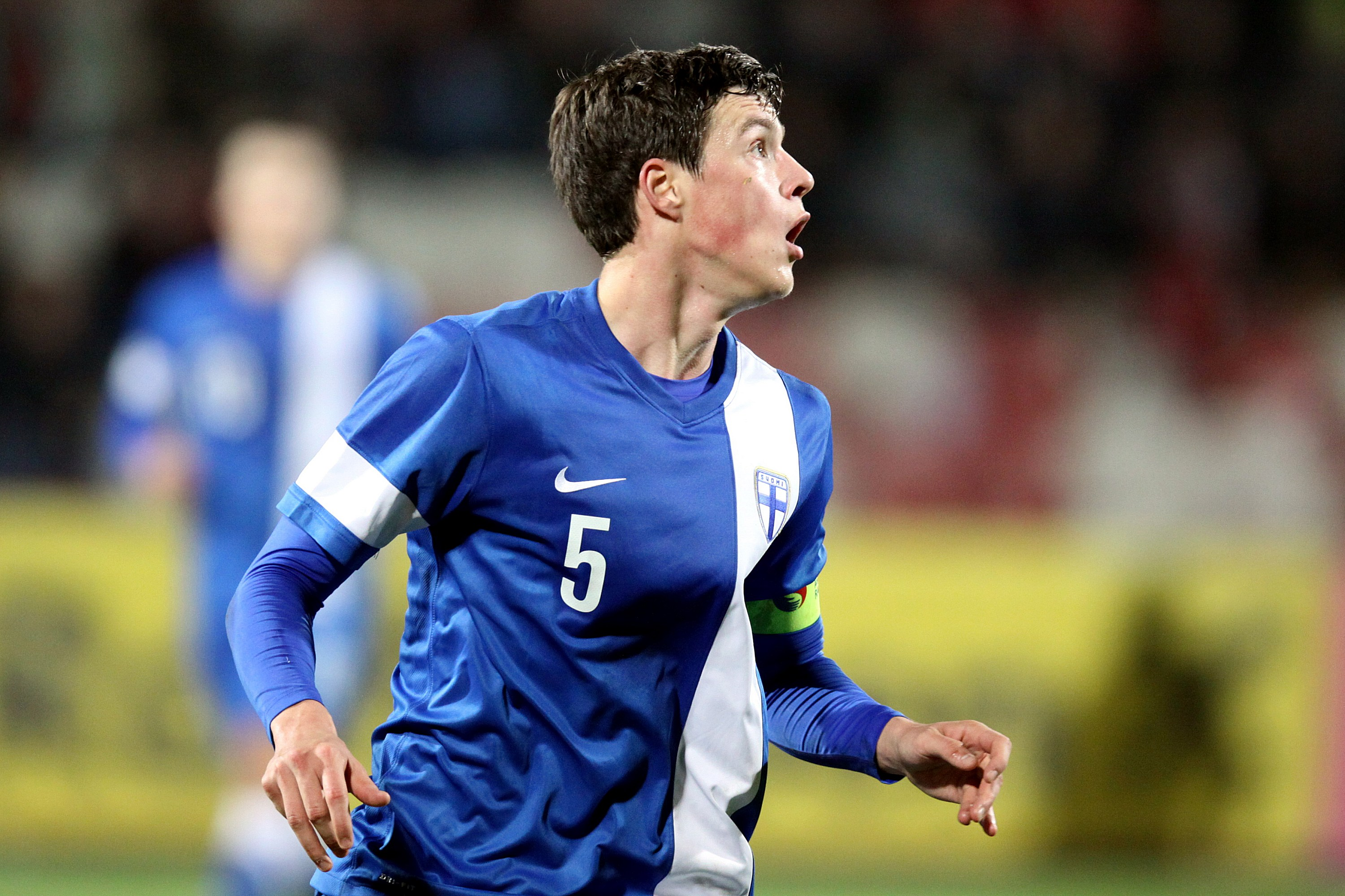 2017 UEFA European Under-21 Championship qualification – Austria U-21 (red shirts) vs. :en:Finland national under-21 football team |Finnland U-21 (blue shirts) 2-0 (0-0) – 2015-11-13 in Vienna, Austria Arena – The photo shows Sauli Väisänen.